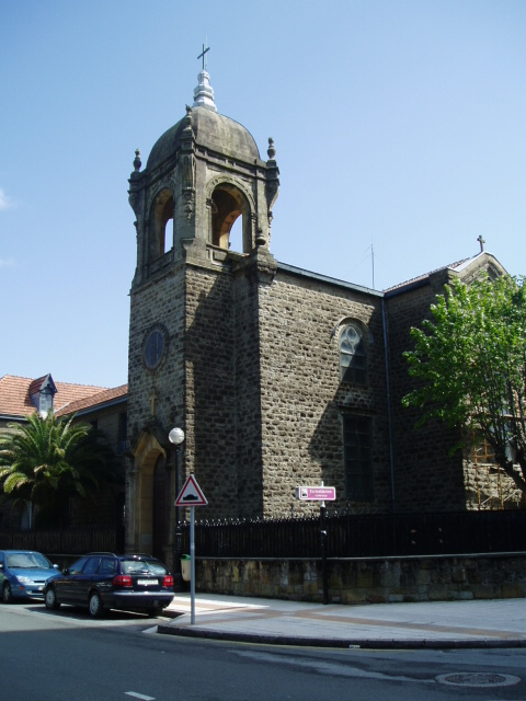 Carmelite Convent of Zarautz (Gipuzkoa).